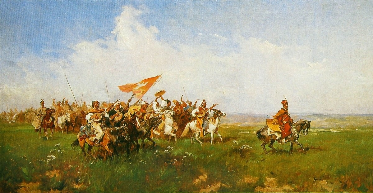 Light cavalry of the Polish-Lithuanian Commonwealth (indicated by the red Polish flag). Cossacks can be seen carrying a musical instrument (bandura).